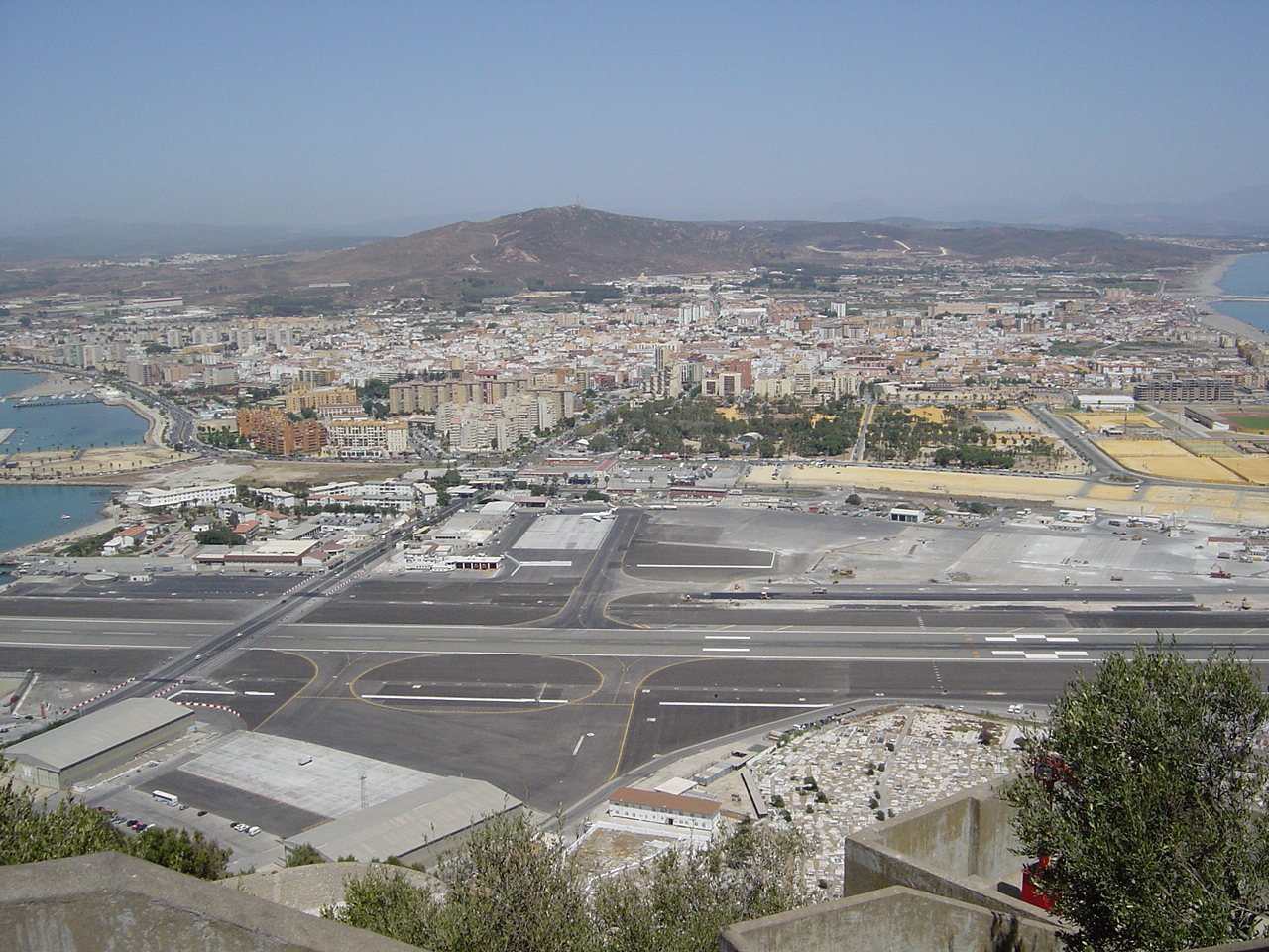 Runway of Gibraltar airport. Here showing the unique runway crossing and the Spanish border.